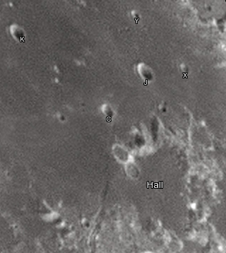 Hall lunar crater as seen from Earth with satellite craters labeled